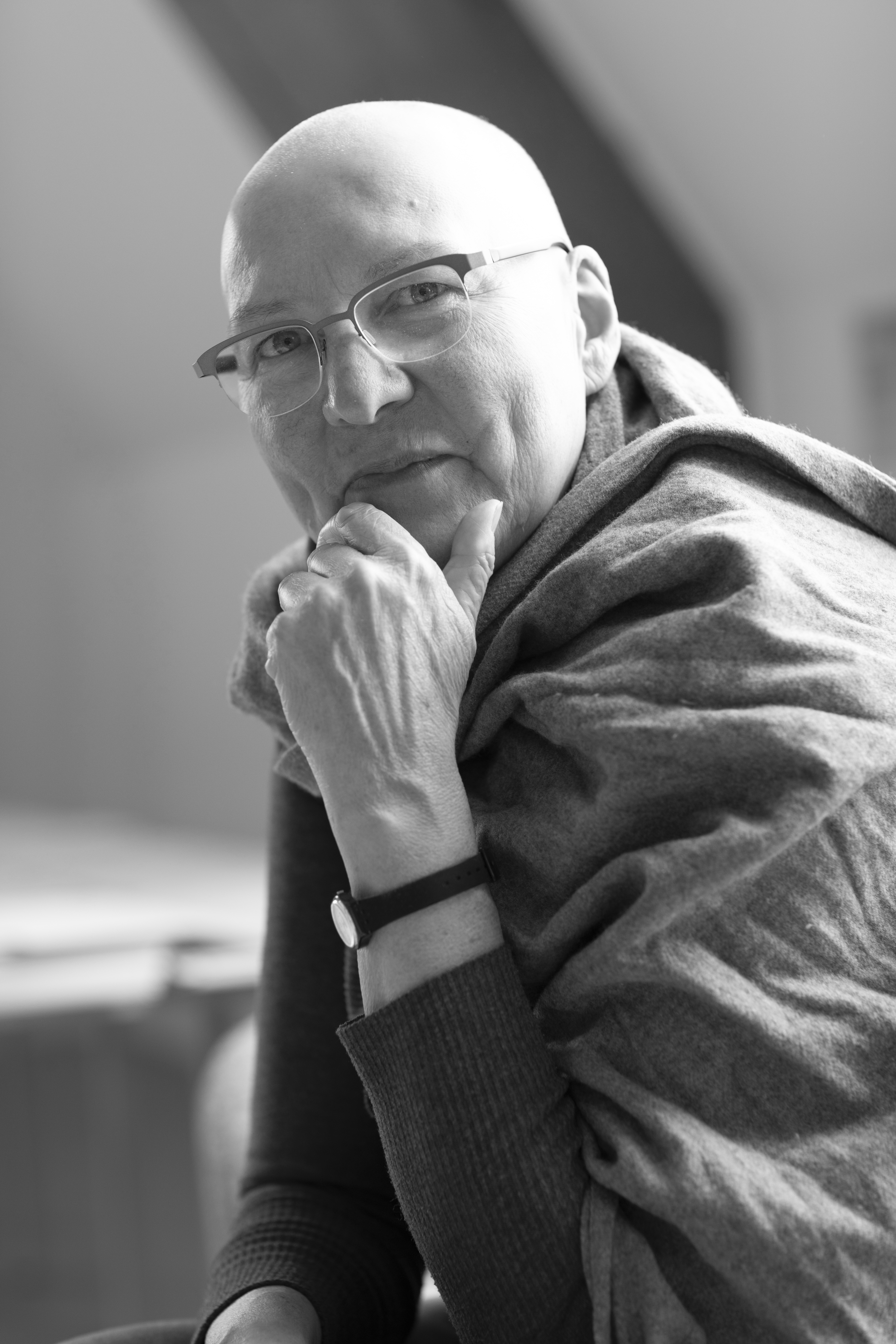 Portrait of Ute Reeh, photographed by Beate Steil